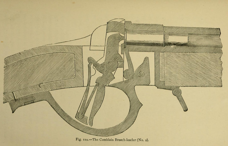 Breechload for a fusil Comblain